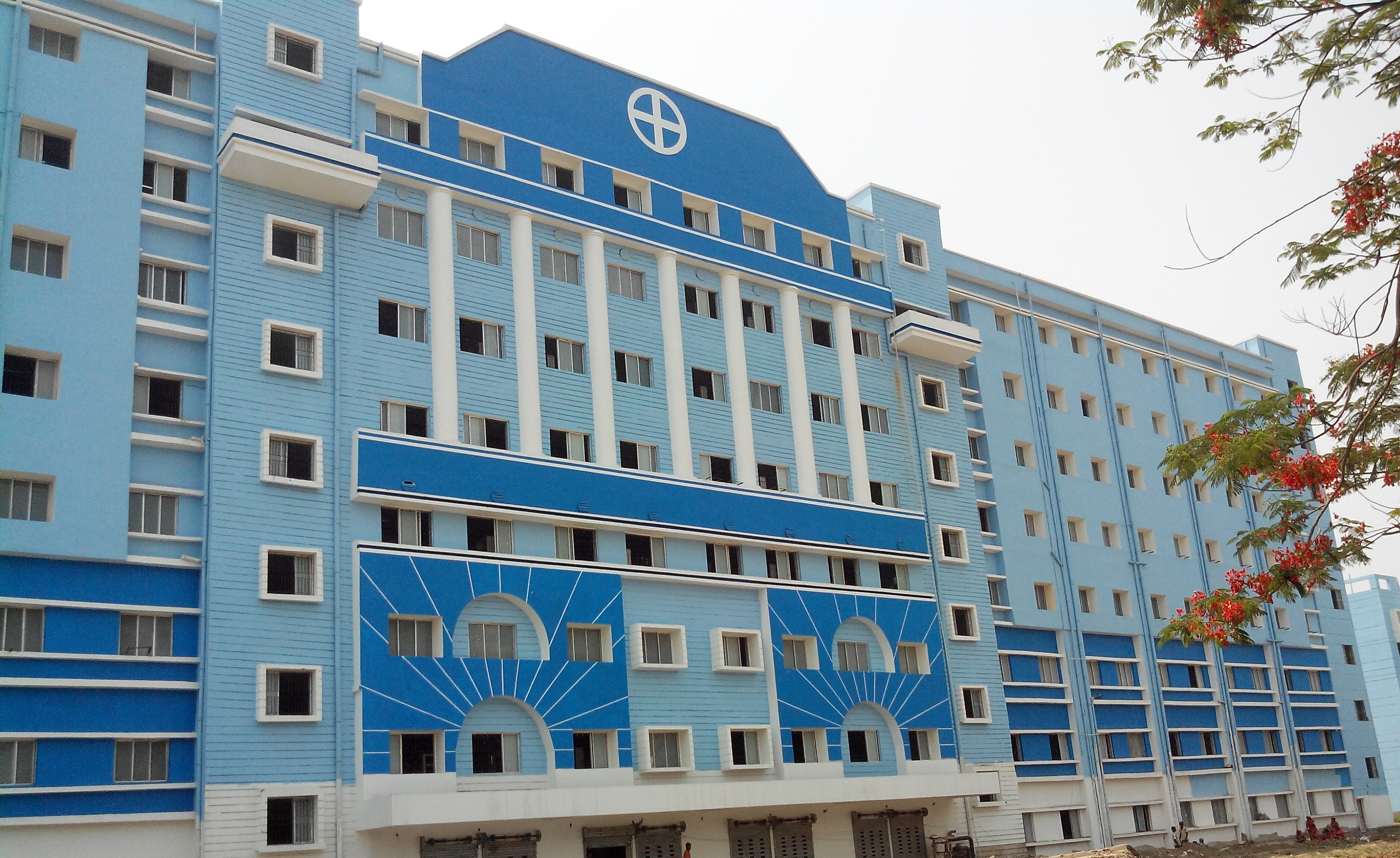 This is the front view of academic building of Murshidabad Medical College and Hospital, situated in Berhampore, Murshidabad, West Bengal, India. It is affiliated to West Bengal Health University and Medical Council of India.This picture has been captured by Debajyoti De and Sukdev Paul(two students of the first MBBS batch of the college)